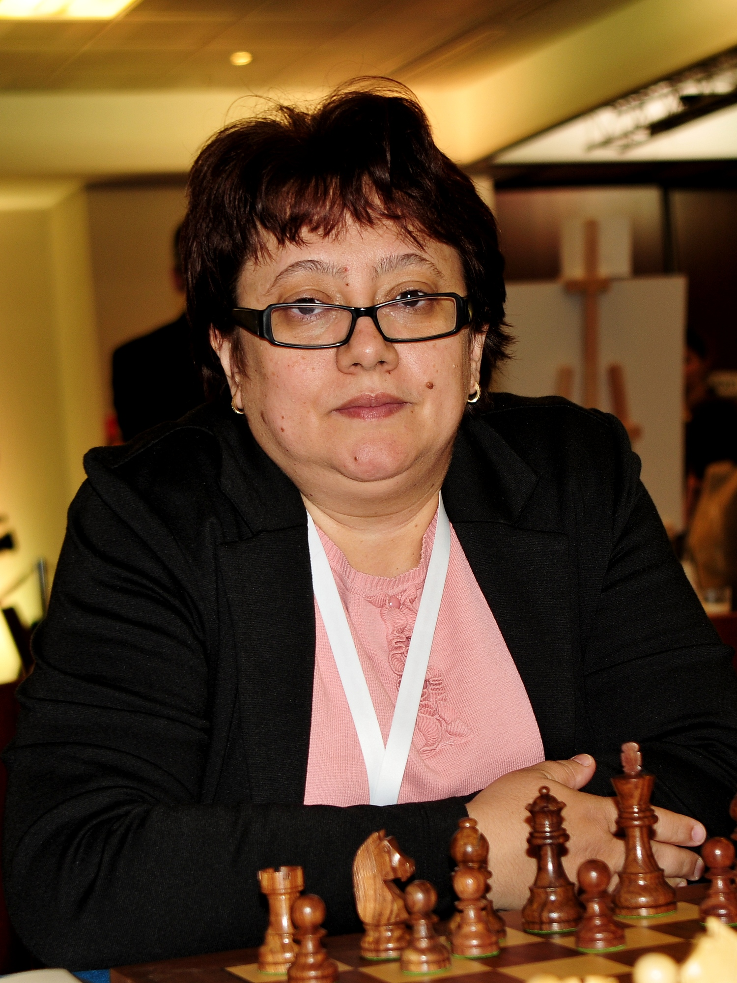 WGM Elena-Luminiţa Cosma, European Chess Team Championship Warsaw 2013